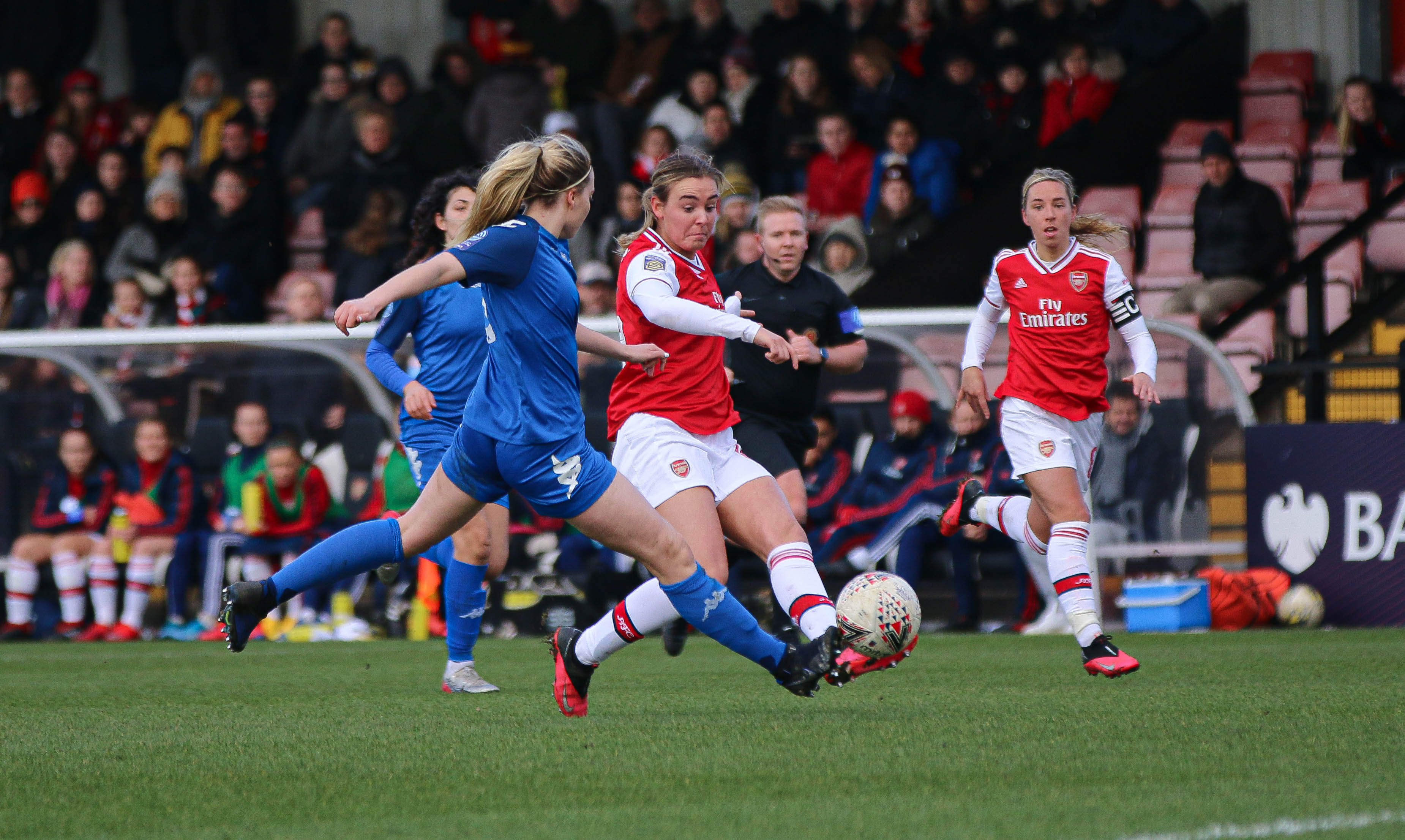 Arsenal WFC – Lewes L.F.C., 23 February 2020